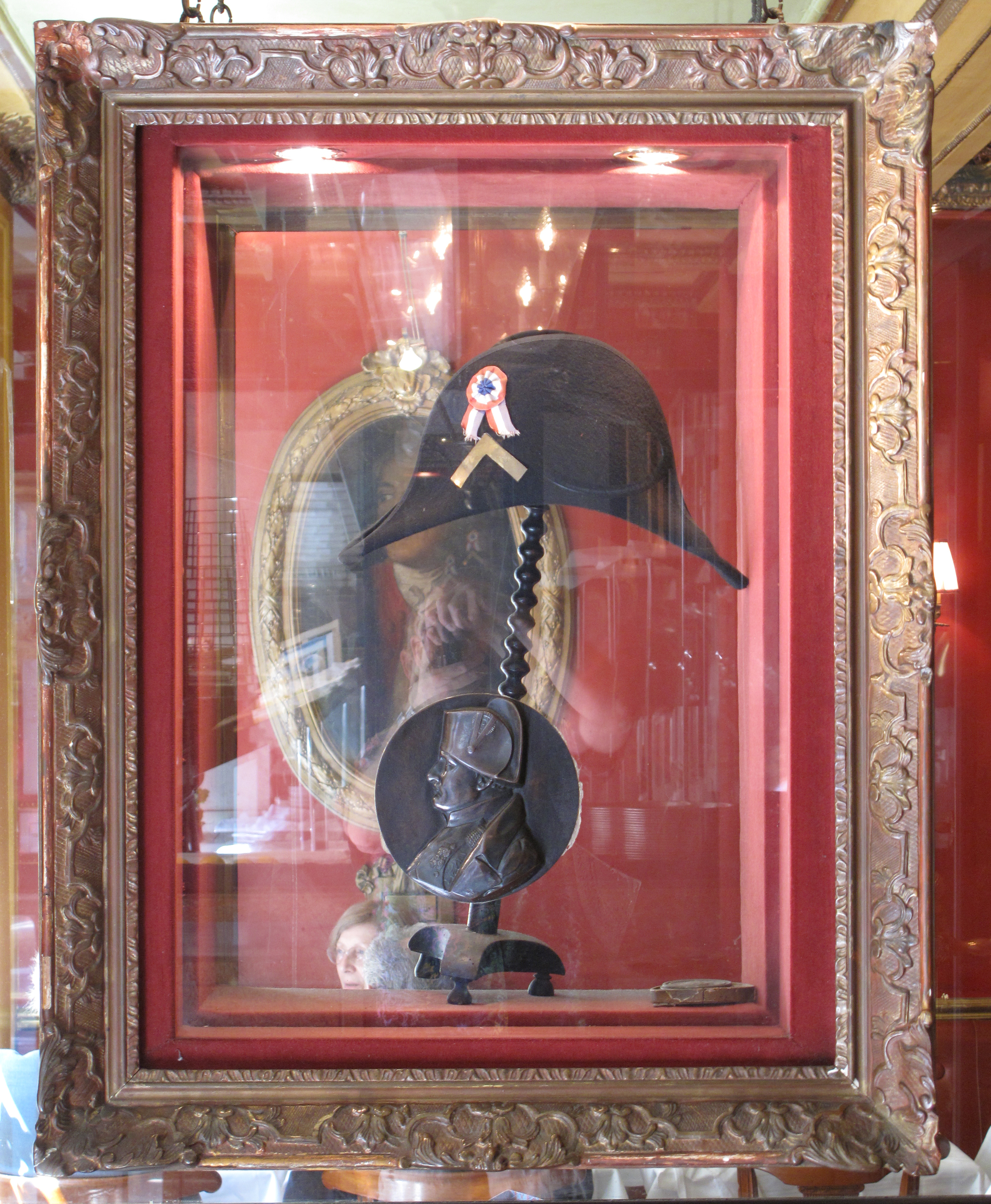 Napoleon's hat at Cafe Procope